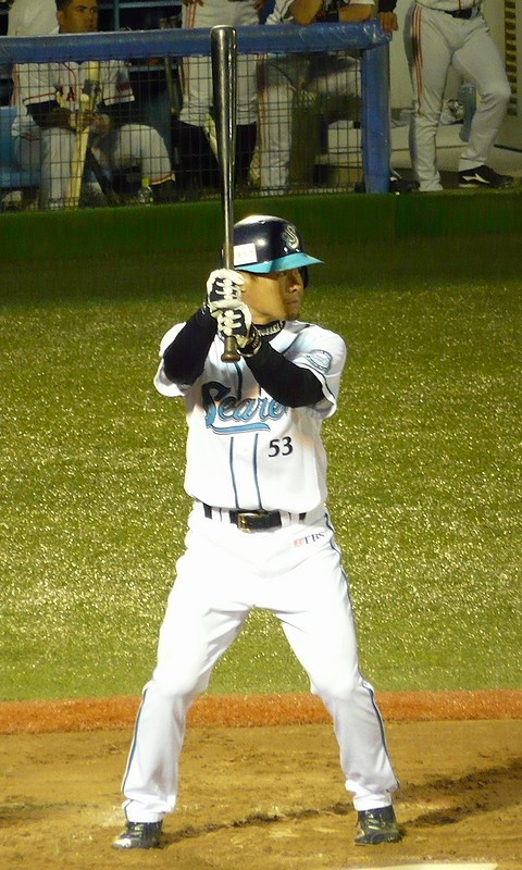 Shingo Nonaka